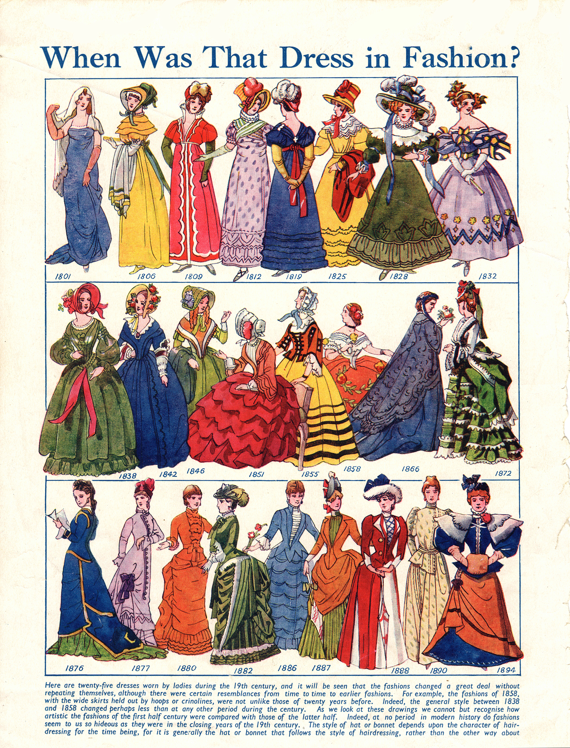 Found this among a lot of very old documents, just what you see in the image is what I have, no other context so I can't tell the source or anything. I am assuming it dates back to that time period.